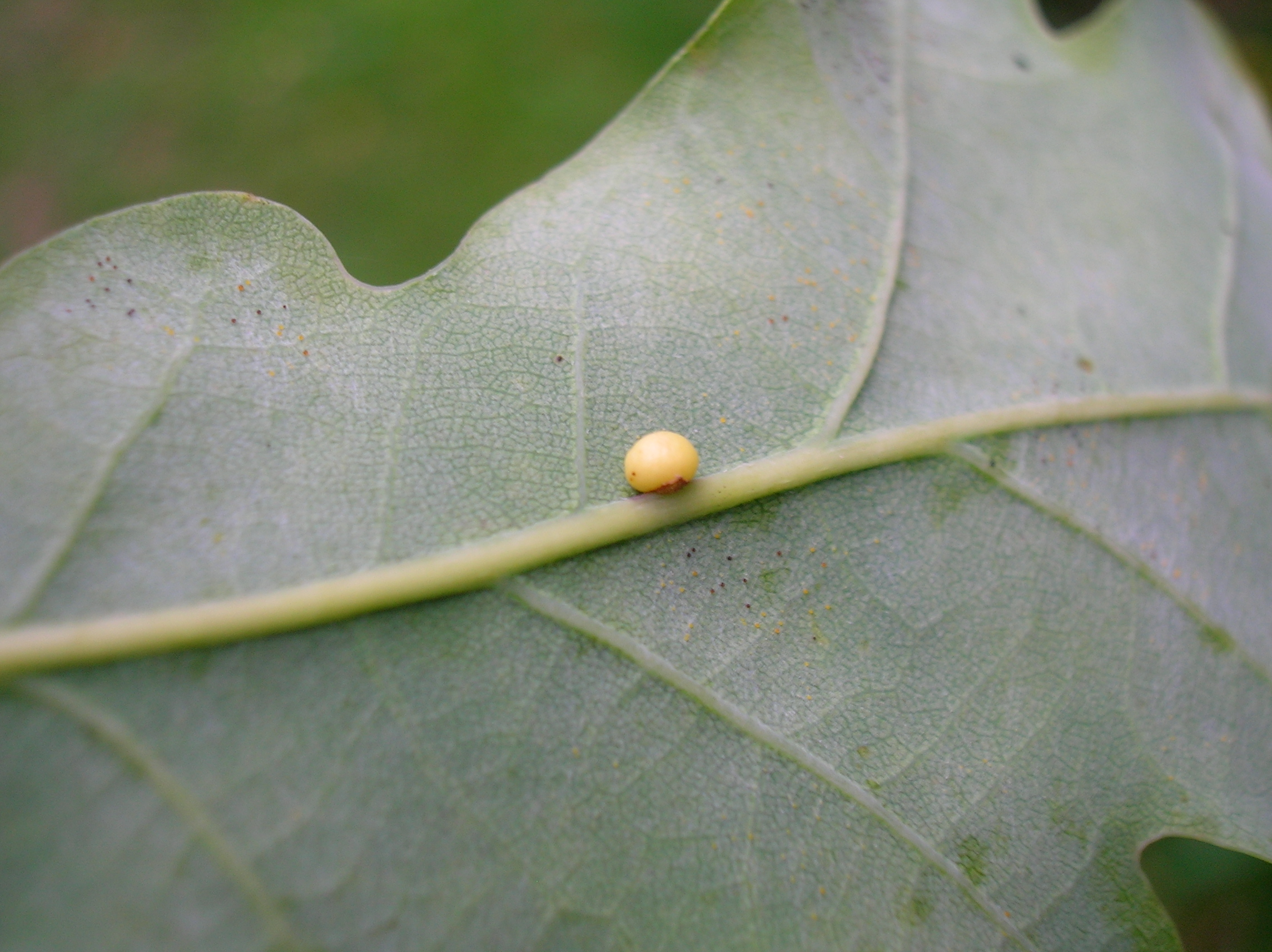 OYSTER GALL Agent: Neuroterus anthracinus. On Quercus robur. Eglinton Country Park, Ayrshire, Scotland